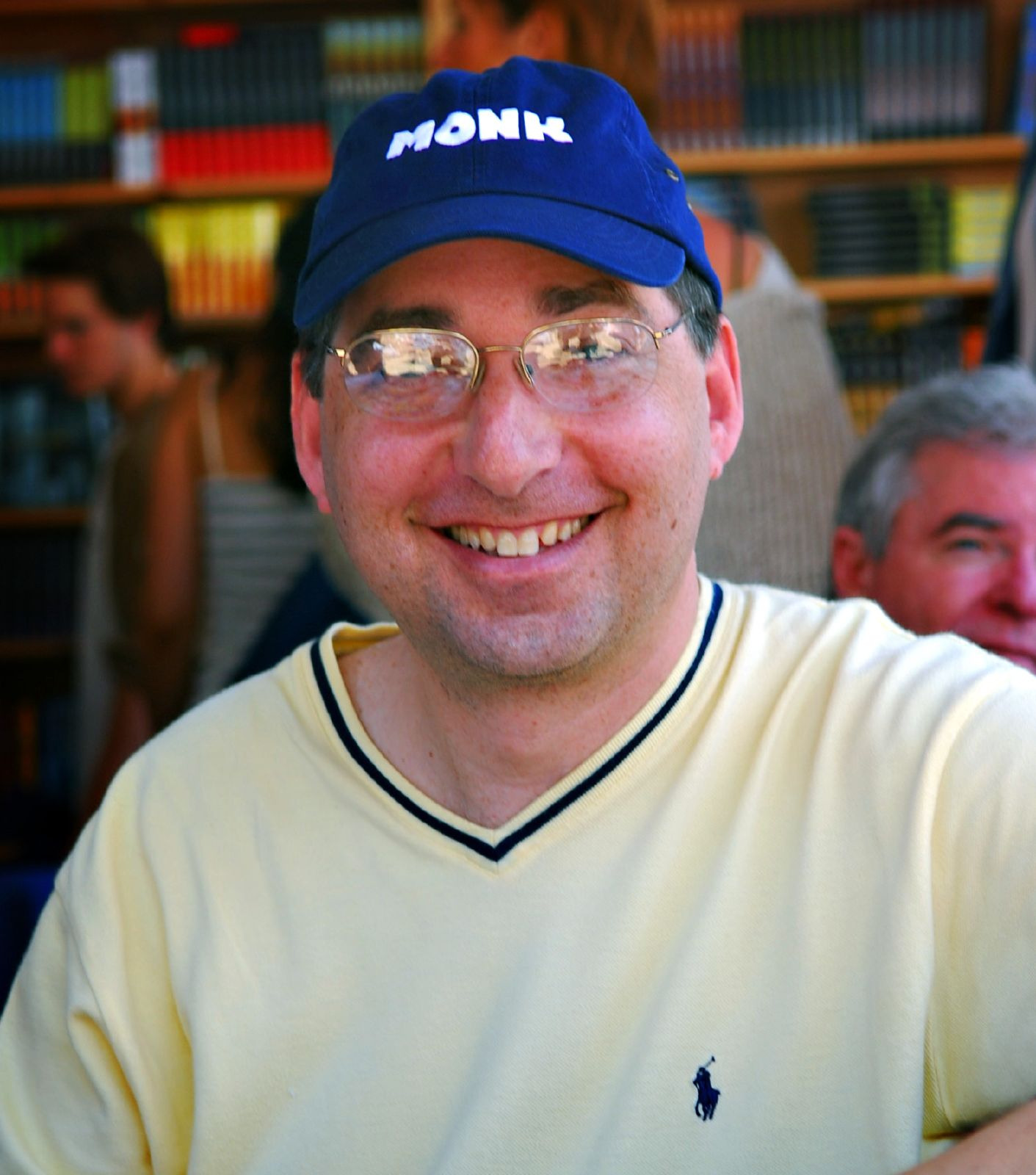 Lee Goldberg at the Los Angeles Times Festival of Books.